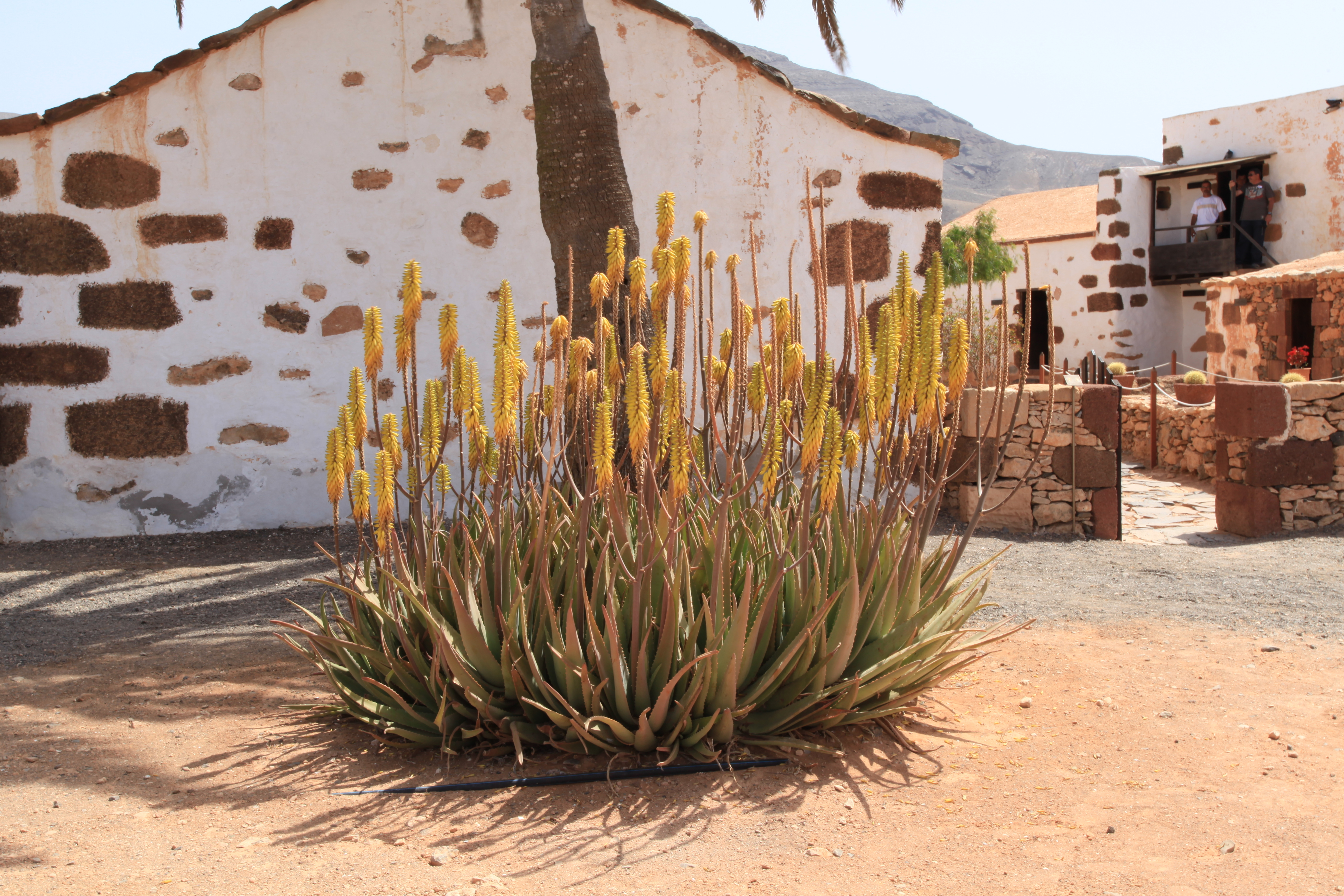 Ecomuseo La Alcogida at Aldea Tefia, FV-207 in Tefia, Puerto del Rosario, Fuerteventura, Canary Islands